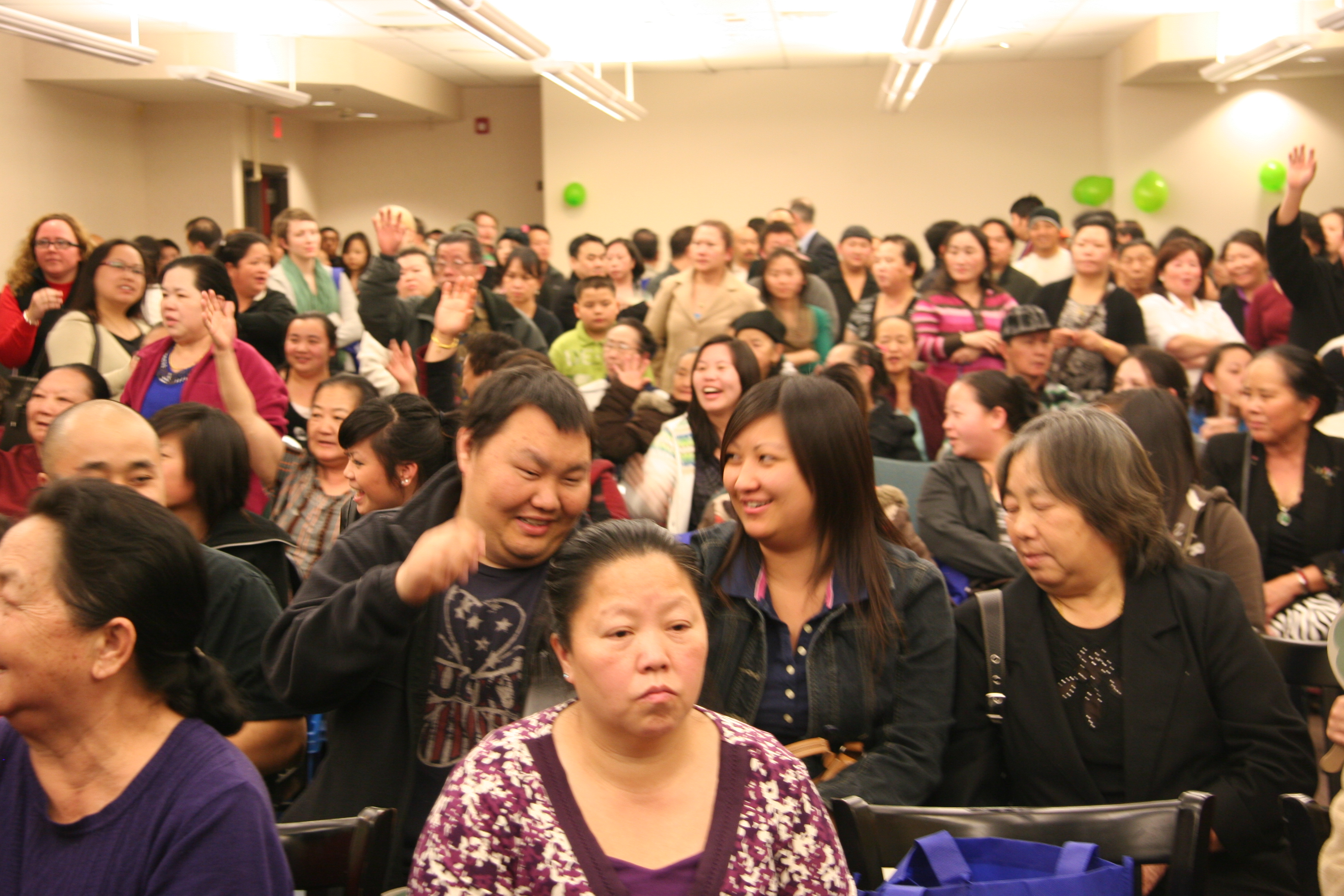 Ramsey County has recognized Hmong Village on St. Paul’s East Side for its work to recycle and reduce food waste. Ramsey County’s Environmental Health Section has worked with Hmong Village’s owners and businesses to set up a successful recycling program that has collected more than 1,100 barrels of food waste for use at a local hog farm. Ramsey County Commissioner Jim McDonough presented a recognition award to Hmong Village’s developers for their support of recycling efforts on Monday, April 4. Hmong Village, 1001 Johnson Parkway, is a multi-use development that opened last year in a building formerly operated by the Saint Paul Schools. The development has more than 200 merchant stalls, 40 offices, 35 produce booths and 17 restaurants. Ramsey County’s Environmental Health Section partnered with Hmong Village’s owners to help set up, and provide training, for businesses to collect food waste, and other recyclables. Ramsey County has recognized Hmong Village on St. Paul’s East Side for its work to recycle and reduce food waste. Ramsey County’s Environmental Health Section has worked with Hmong Village’s owners and businesses to set up a successful recycling program that has collected more than 1,100 barrels of food waste for use at a local hog farm. Ramsey County Commissioner Jim McDonough presented a recognition award to Hmong Village’s developers for their support of recycling efforts on Monday, April 4. Hmong Village, 1001 Johnson Parkway, is a multi-use development that opened last year in a building formerly operated by the Saint Paul Schools. The development has more than 200 merchant stalls, 40 offices, 35 produce booths and 17 restaurants. Ramsey County’s Environmental Health Section partnered with Hmong Village’s owners to help set up, and provide training, for businesses to collect food waste, and other recyclables.